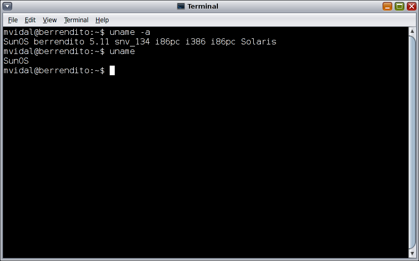 Version string of OpenSolaris, showing internal identifier of "SunOS 5.11".